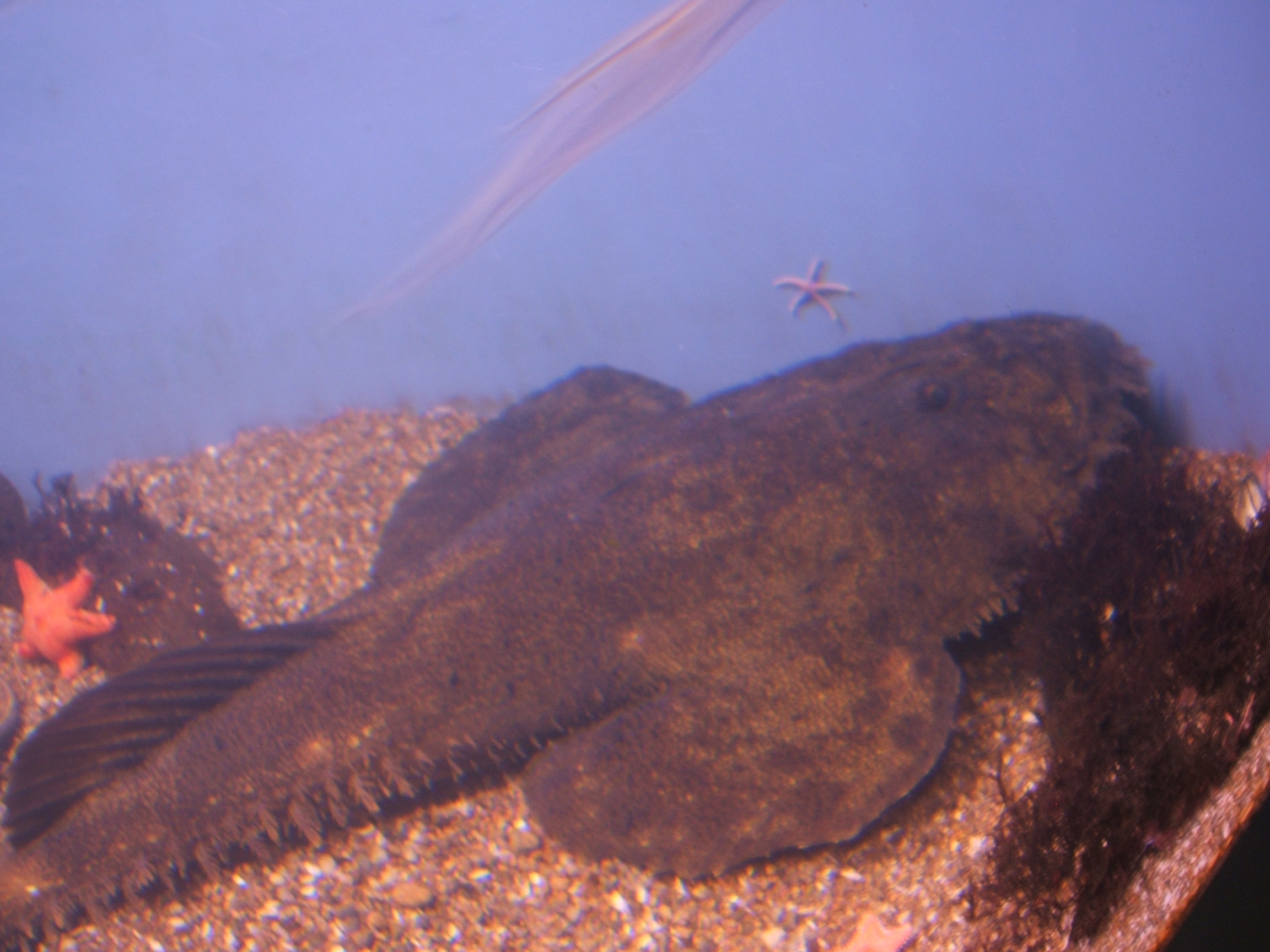 American angler, or goosefish (Lophius americanus). Taken at the New England Aquarium (Boston, MA, December 2006. Copyright © 2006 Steven G. Johnson and donated to Wikipedia under GFDL and CC-by-SA.